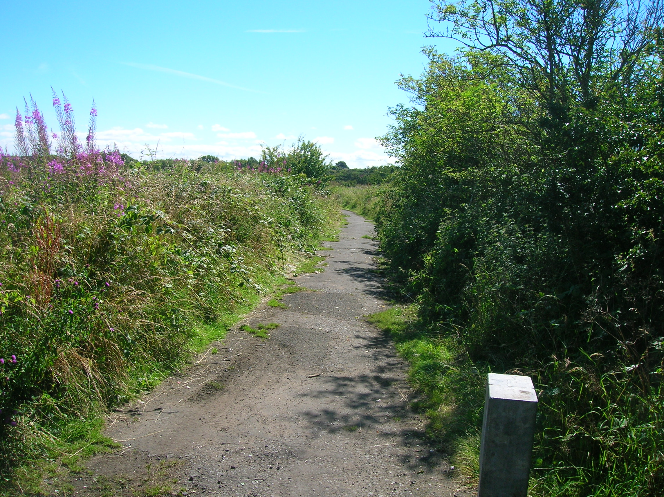 The Inch Road to Ardeer, Stevenston, North Ayrshire, Scotland.